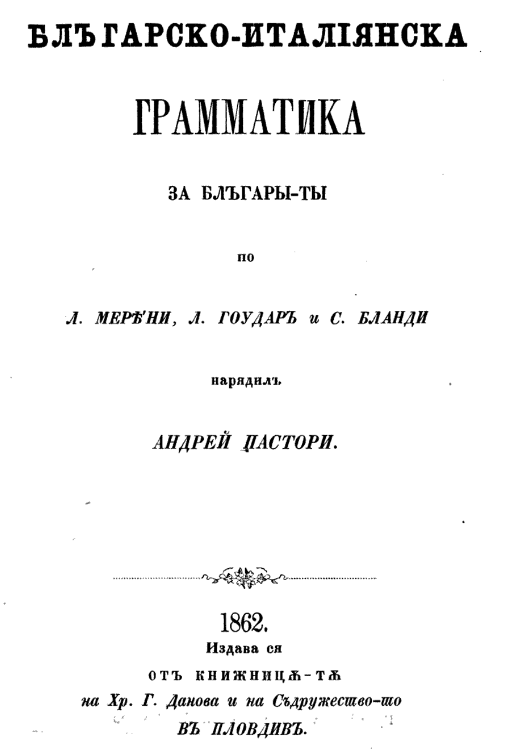 Bulgarian-Italian grammer